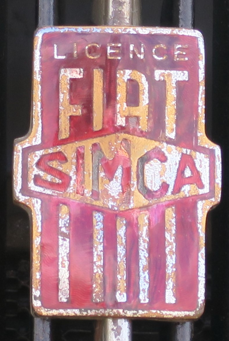 Simca-Fiat 6CV the badge